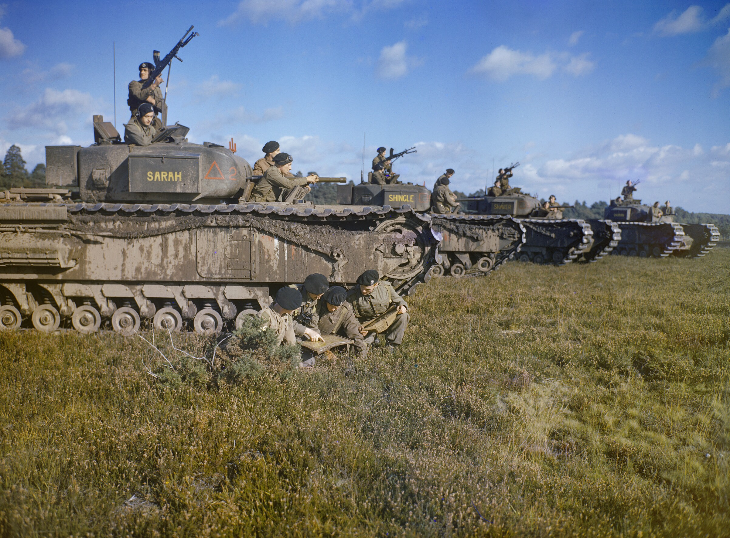 Churchill tanks of 43rd Battalion, Royal Tank Regiment on manoeuvres in the UK, October 1942. Churchill tanks of A and B Squadrons, 43rd Battalion, Royal Tank Regiment, 33rd Brigade in line abreast wait to move off as squadron leaders and tank commanders discuss operations in the foreground.